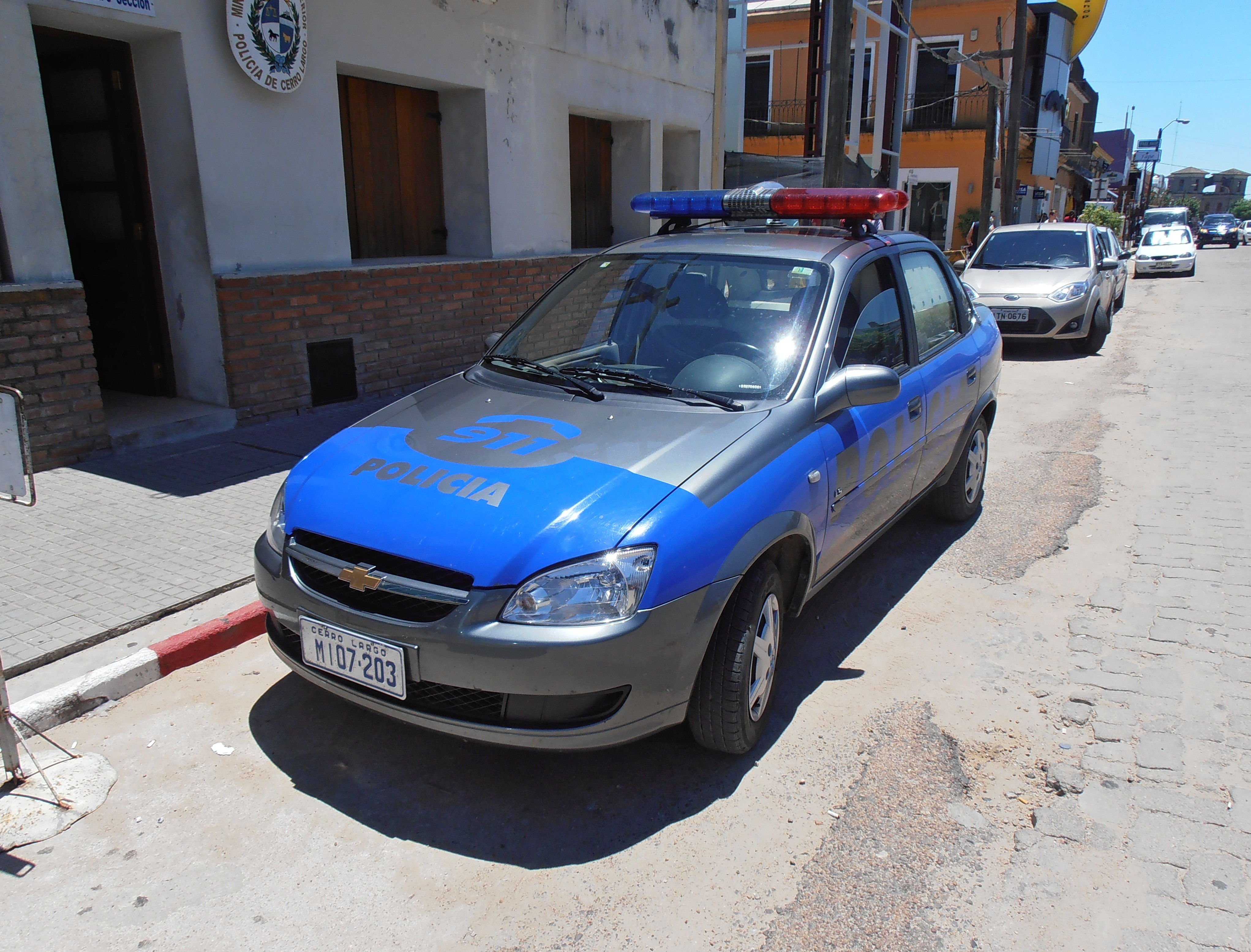 Uruguay police car